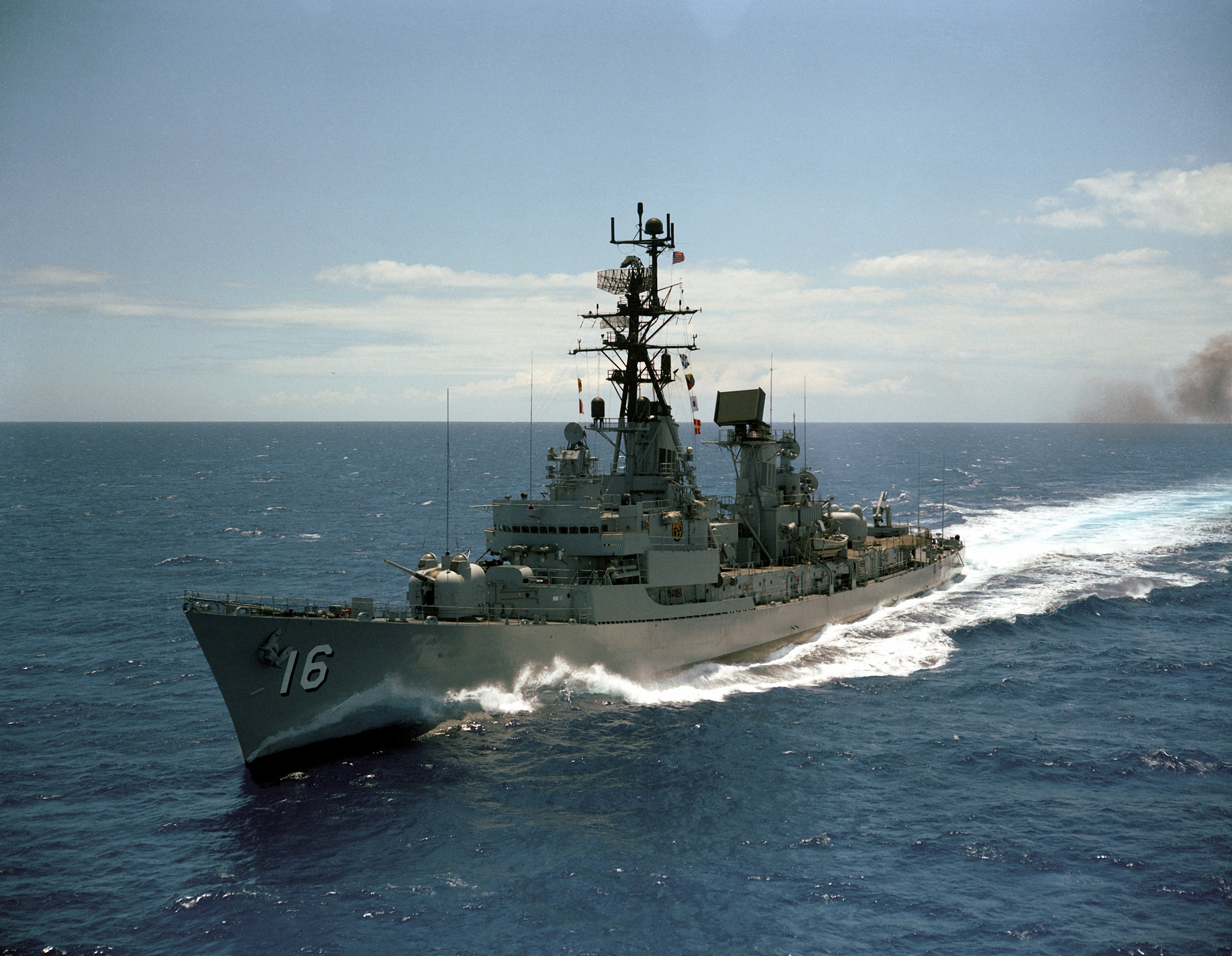 The U.S. Navy guided-missile destroyer USS Joseph Strauss (DDG-16) underway on 3 June 1968.